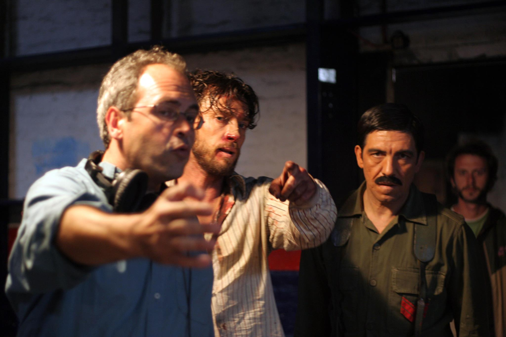 COMPLICI del SILENZIO